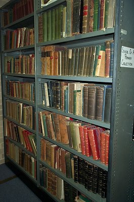 Bathurst Old School of Arts Library Collection: Example of Bathurst Old School of Arts Library Collection in closed reserve at Bathurst City Library.